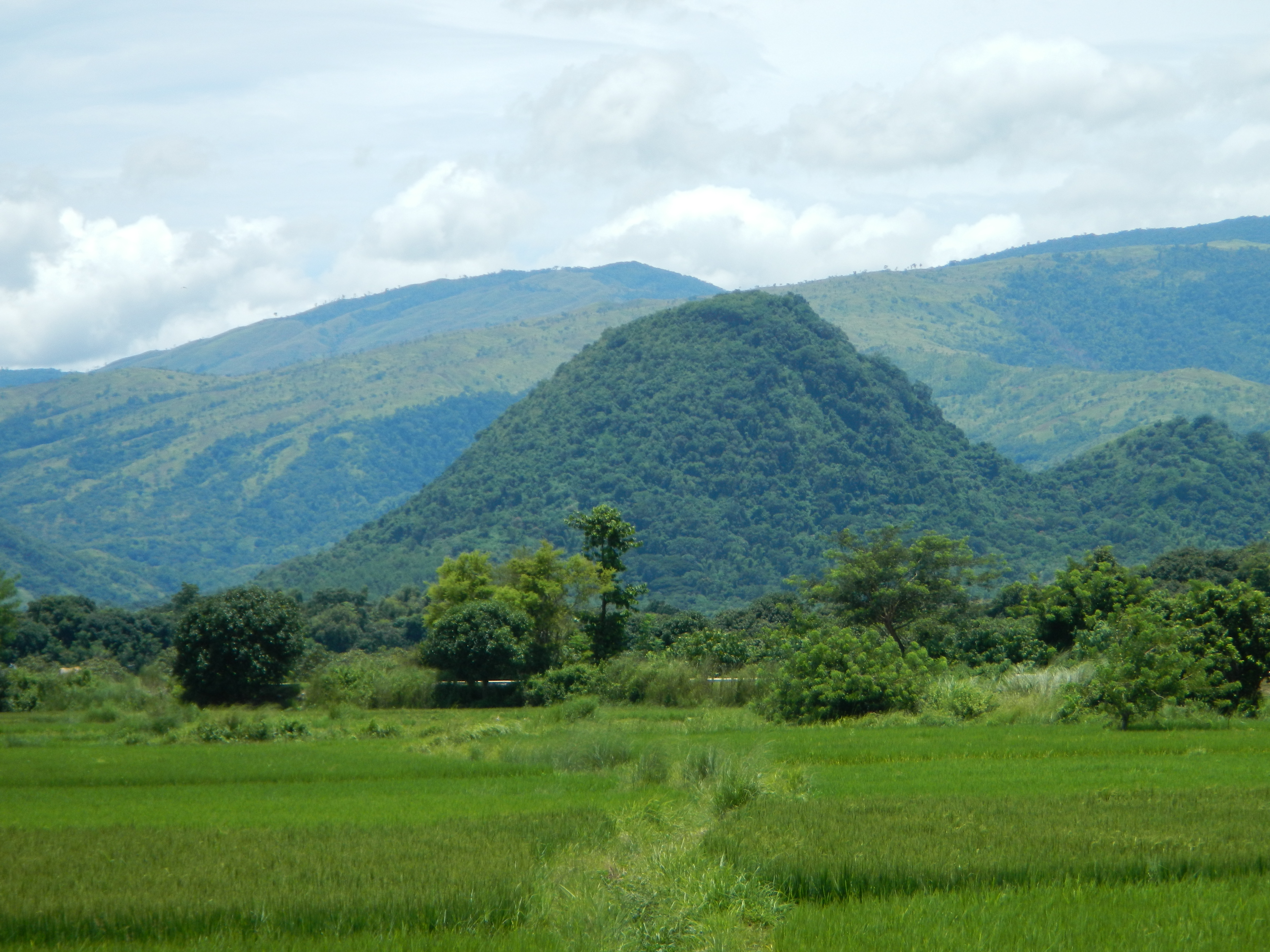 UploadWizard photos of Scenic - Barangay Macarang - greens, pasture, paddy fields amid blue mountain ranges Manleluag Spring Protected Landscape Mangatarem forest Mangatarem’s Critical Habitat Mount Malabobo Latitude: 15°43'10.31" Longitude: 120°18'27.23" near the Macarang National High School [1] Coordinates: 15°43'3"N 120°21'5"E - Mangatarem, Pangasinan [2] [3] [4] Coordinates: 15°44'20"N 120°16'57"E